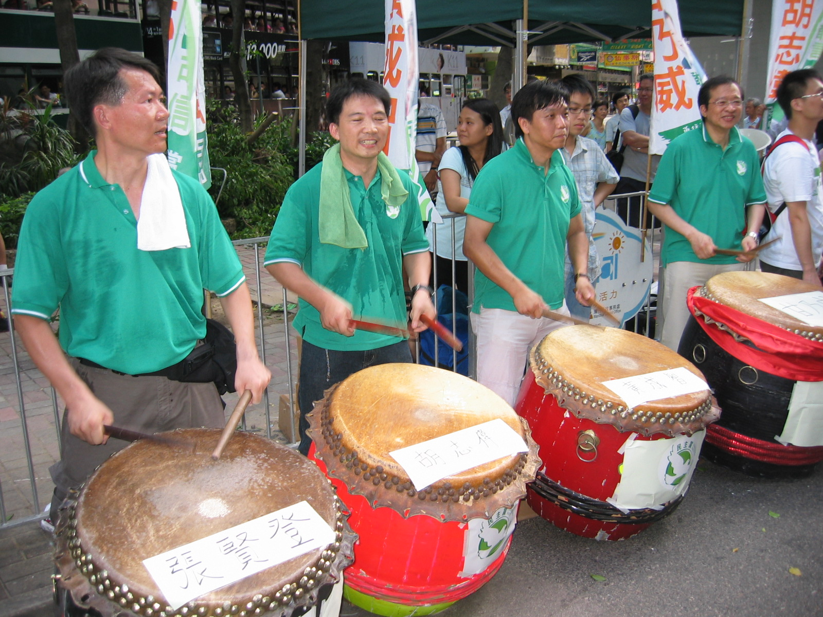 (From the left)CHEUNG Yin Tung, WU Chi Wai, Nelson Wong and KAM Nai Wai in the Hong Kong 2008 July 1 marches 中文（香港）: (由左起)張賢登、胡志偉、黃成智和甘乃威出席2008年七一大遊行的相片